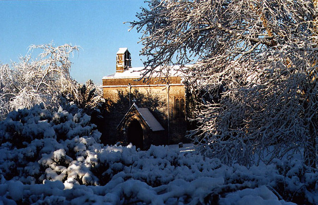 St Mary Magdalene parish church, Baunton, Gloucestershire, seen from the south in snow